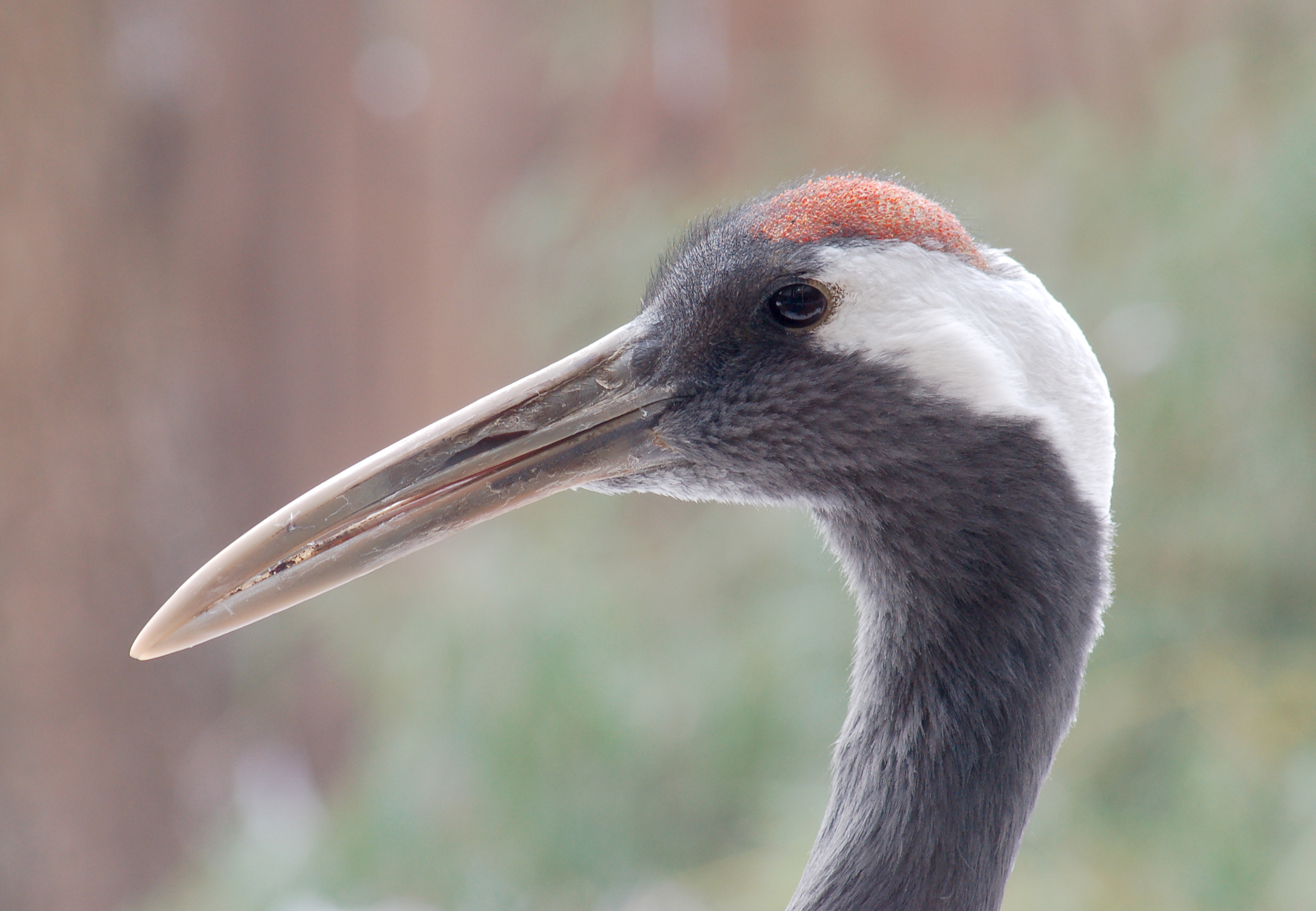 A photograph of the head of the Red-crowned Craneen (Grus japonensis en ). Photo taken at the National Aviary.